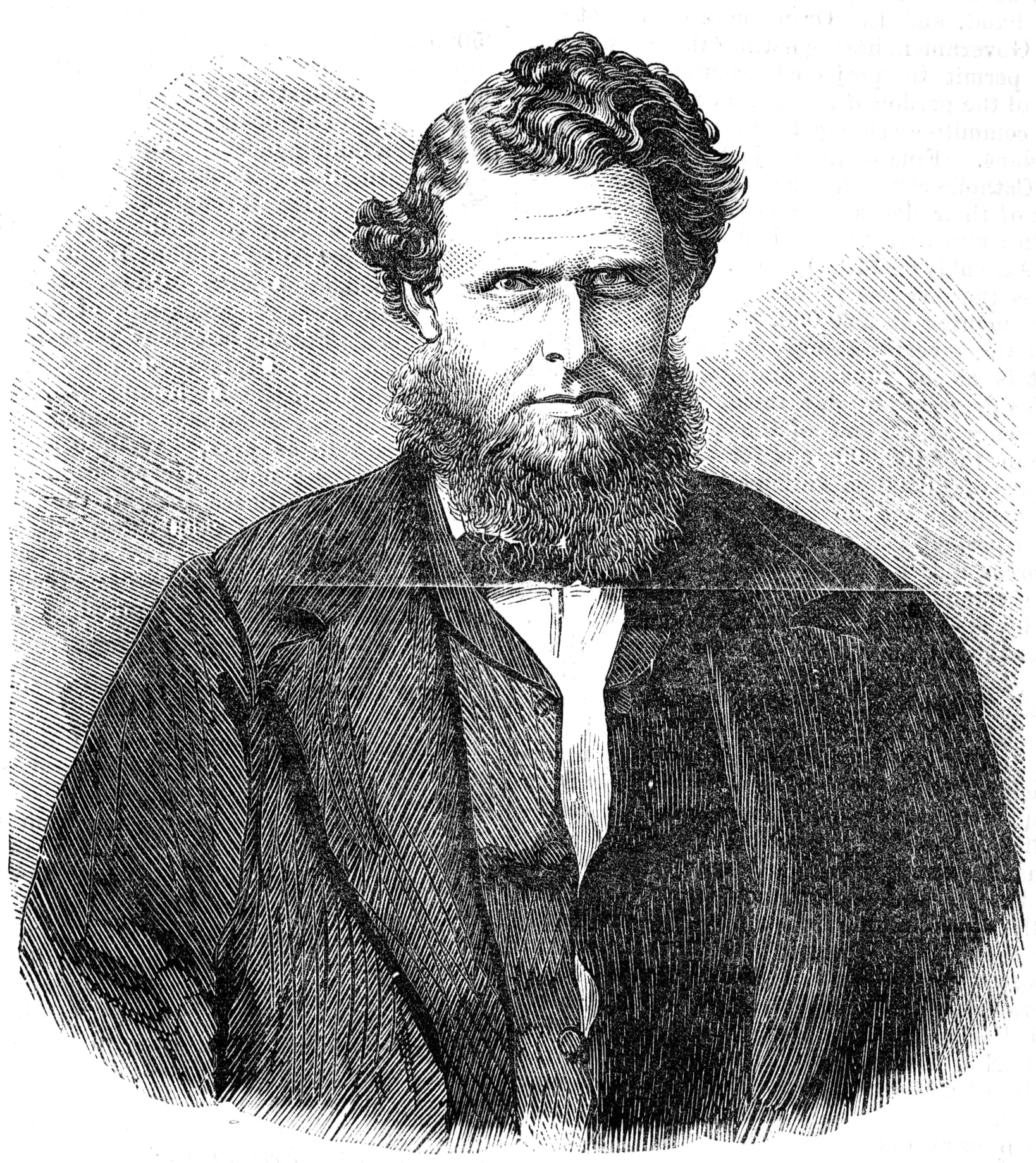 Portrait of Francis Longmore (1826–1898)